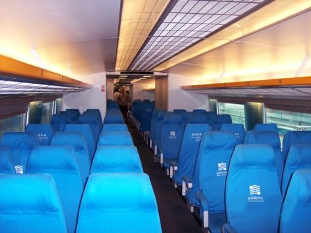 Inside the Transrapid magnetic levitation train at Shanghai, China. Image taken by J450NH3.